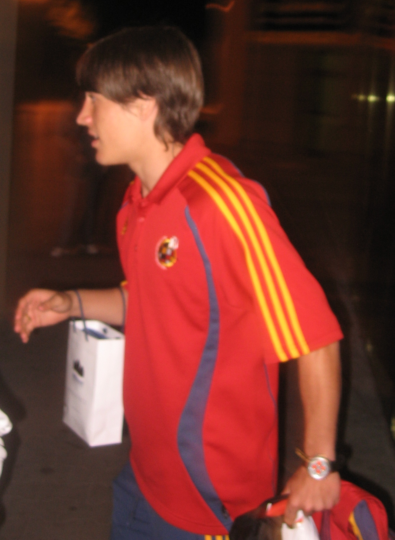 Bojan Krkic at Bydgoszcz Ignacy Jan Paderewski Airport, few days before U-21 football match Poland-Spain in Włocławek.